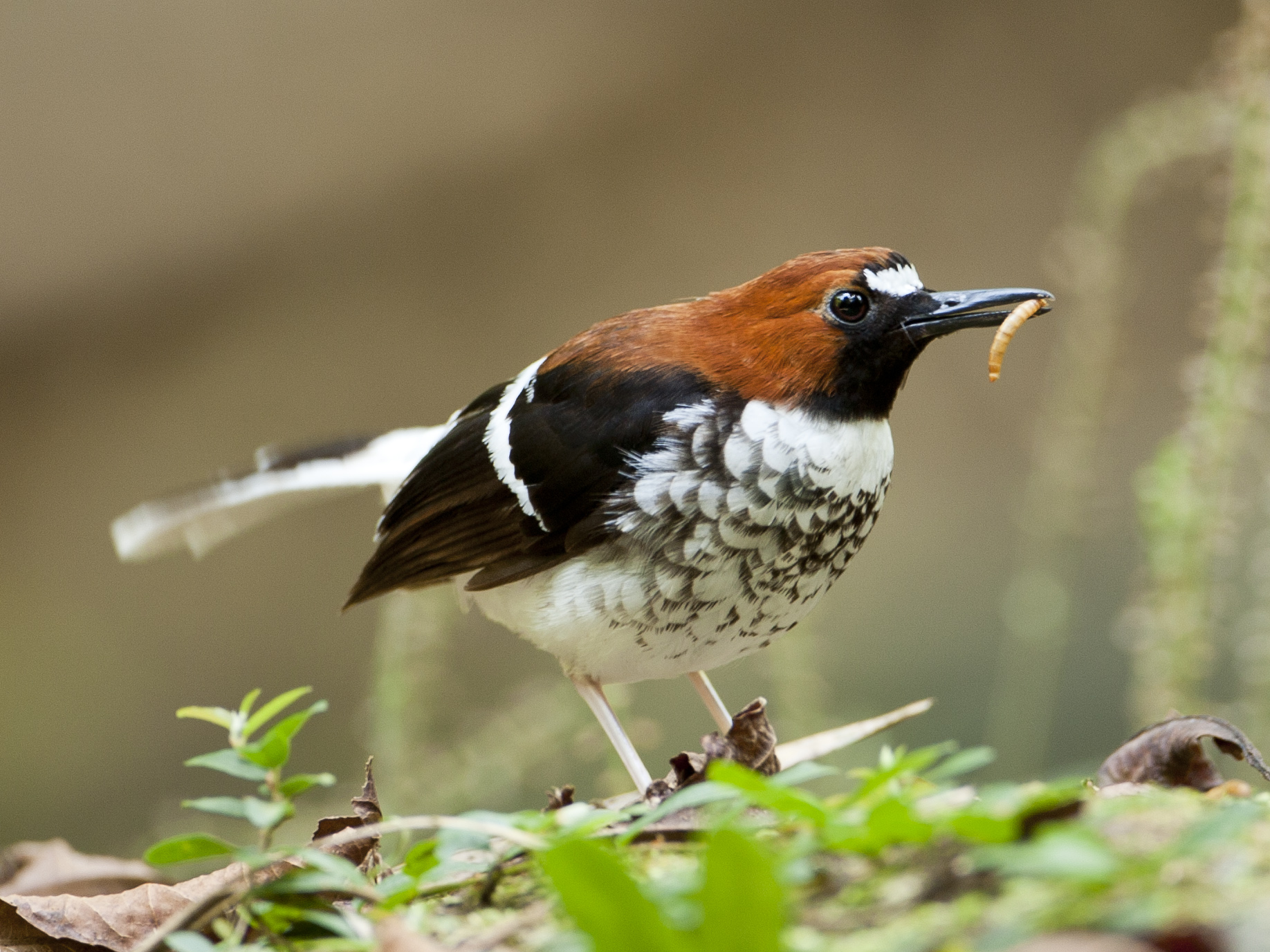 Chestnut-naped Forktail Enicurus ruficapillus, female. Sri Phang Nga NP, Thailand.